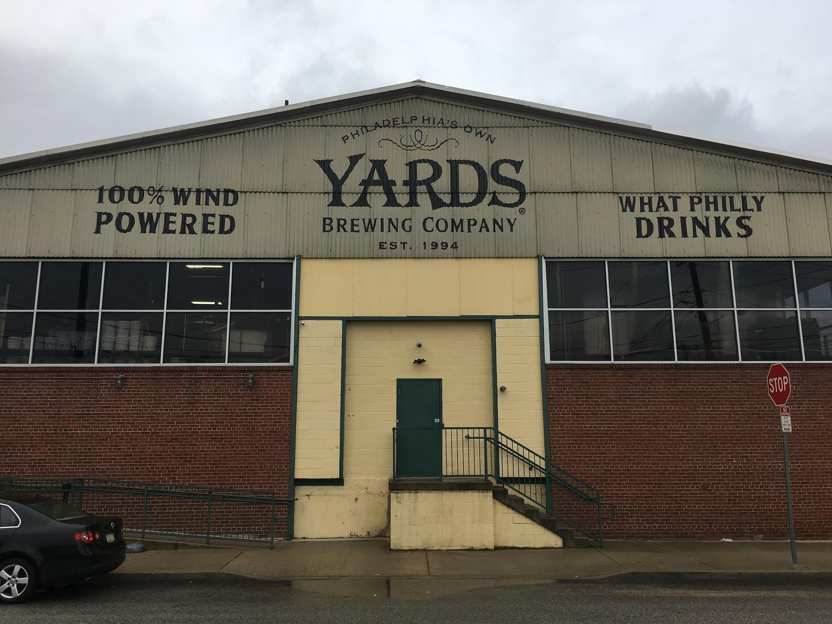 Front of the Yards Brewing Company's facility.